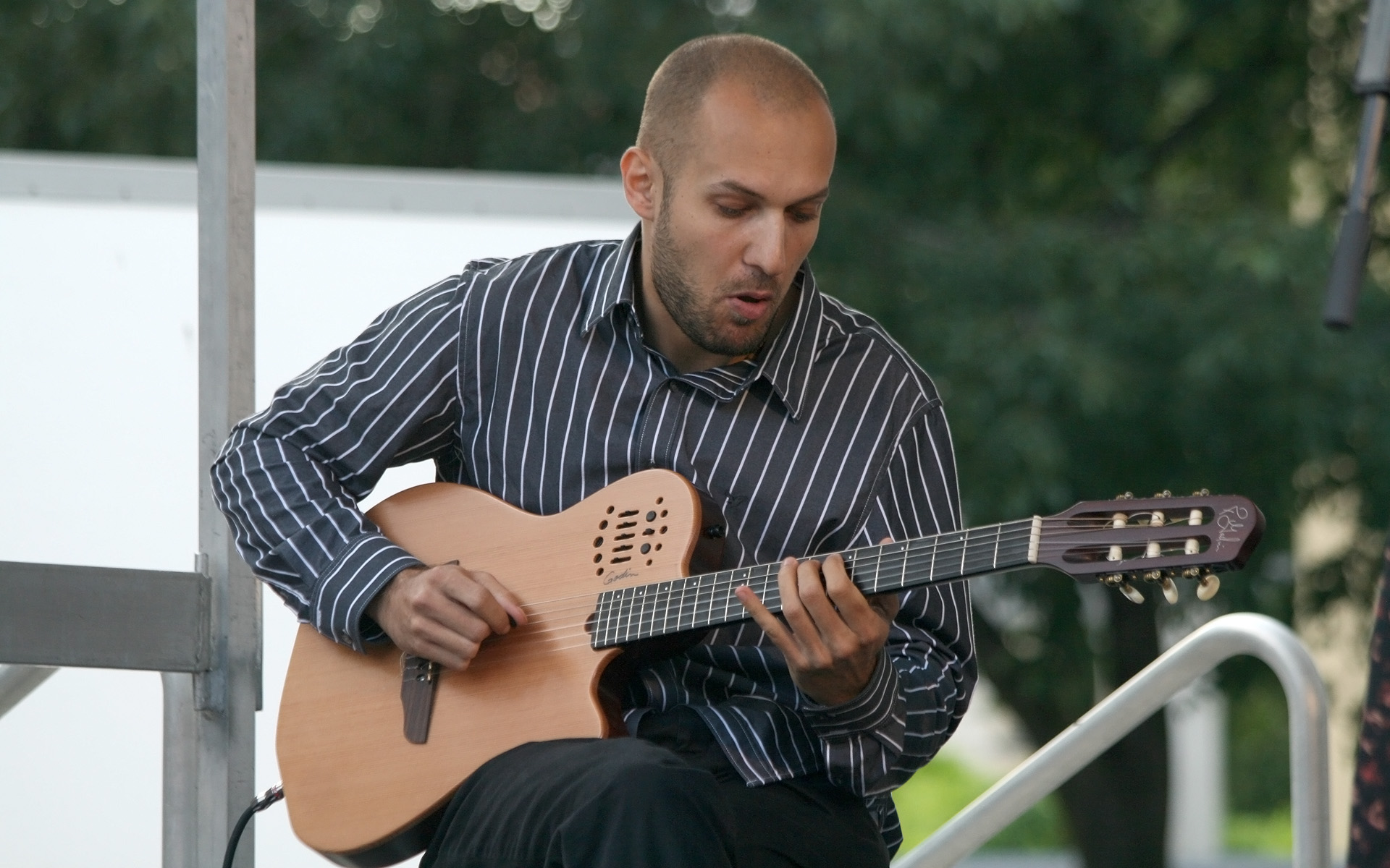 Singer Katika, git: Alex Pinter, at the festival Wir sind Wien – Festival der Bezirke (Meidlinger Platzl in Vienna